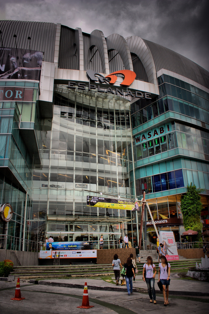 Esplanade Cineplex - Bangkok, Thailand. Location: Ratchada Road (Ratchapisik) This image is copyright of - photographer: Andrew Jones - Copyright 2010